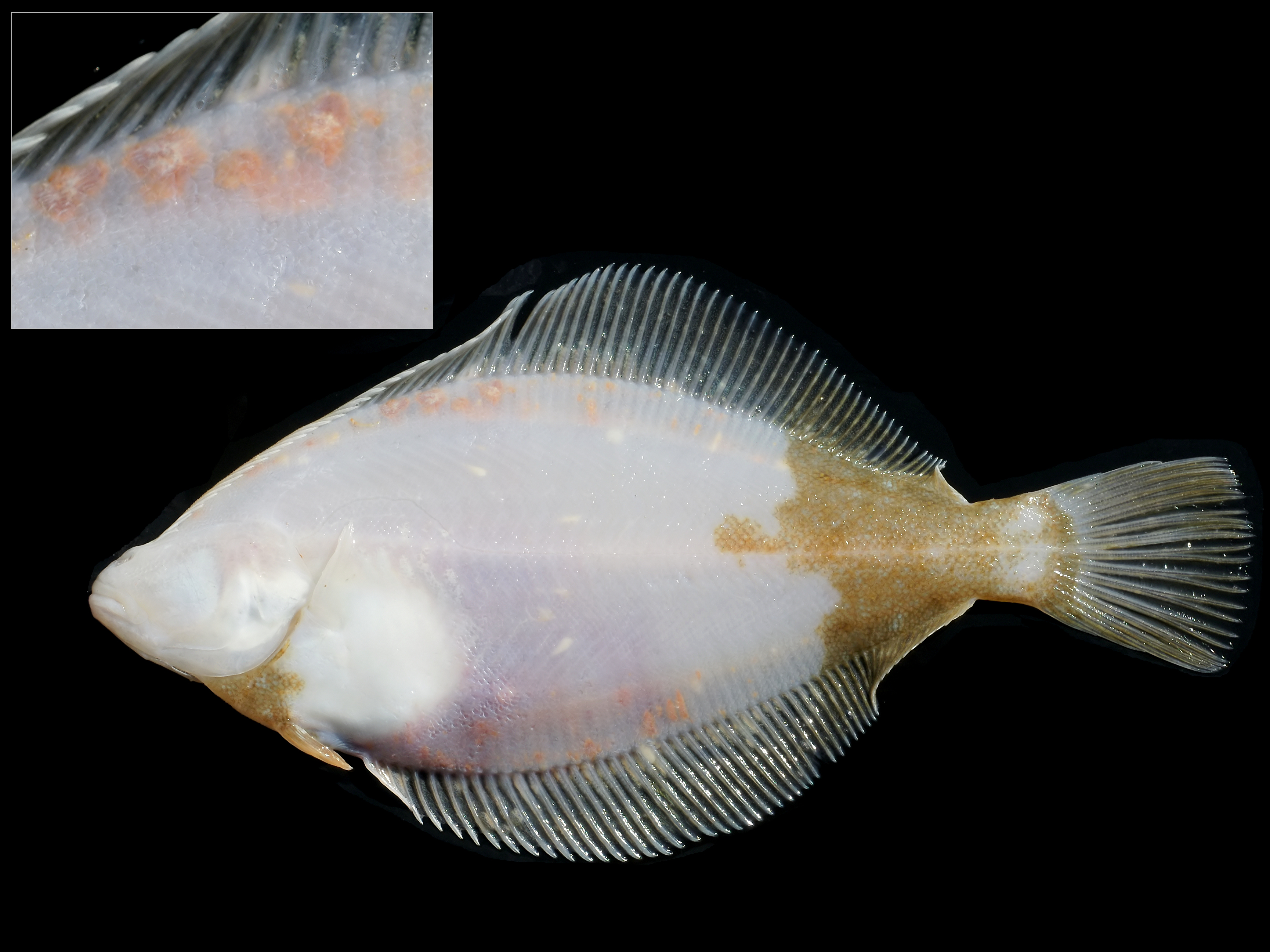 Parasitical worm (Acanthocolpidae - Digenea) on a Dab Limanda limanda, from the Belgian coastal waters. The whitish spots are embedded individual trematodesLab image.